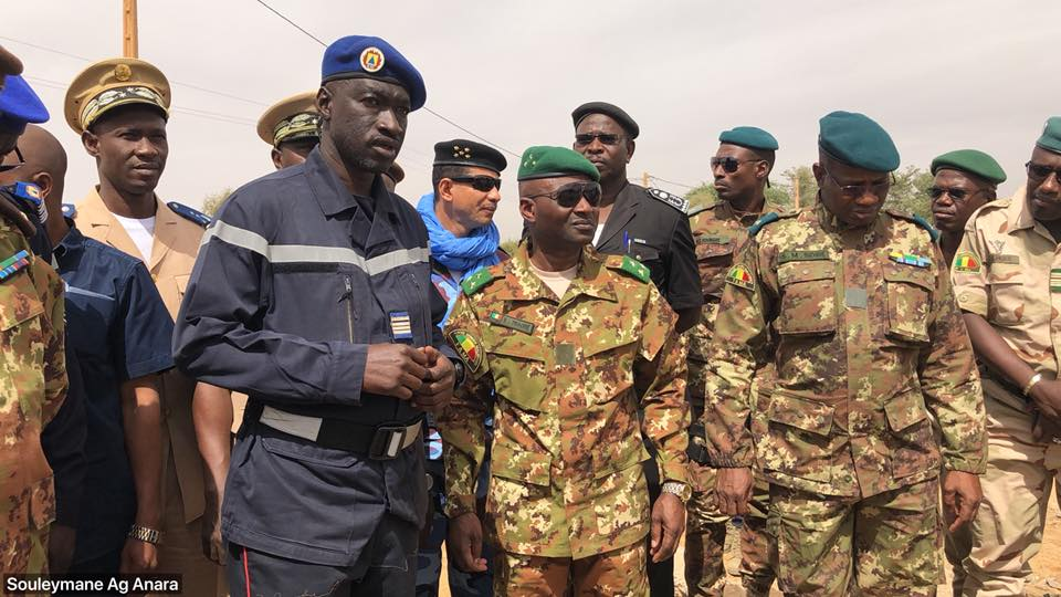 Malian minister of National Security, General Salif Traoré, after a terrorist attack in Gao, Mali, on 13 November 2018